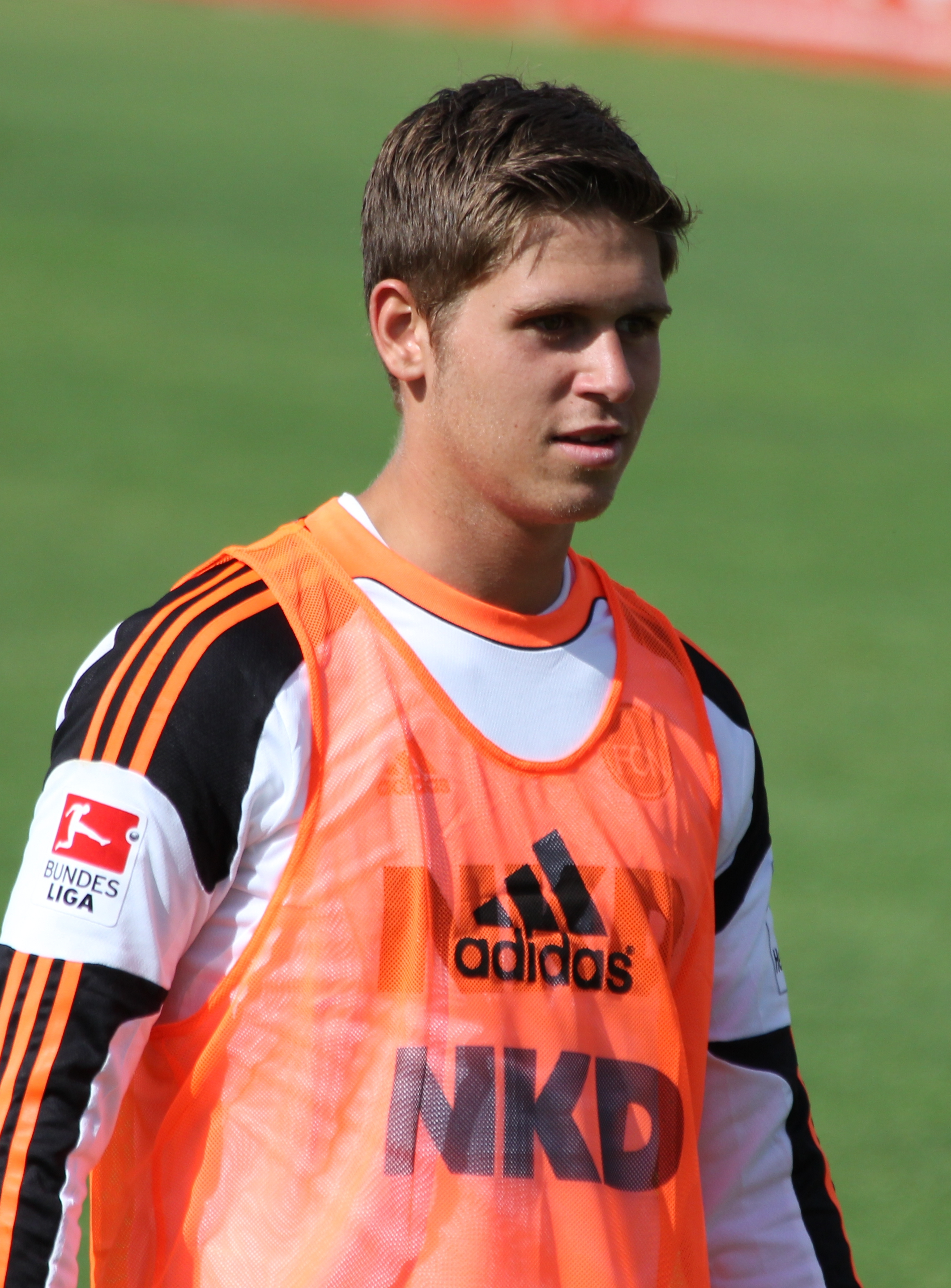 Patrick Rakovsky, football player for German side 1. FC Nürnberg, 2012/13 season, first training session